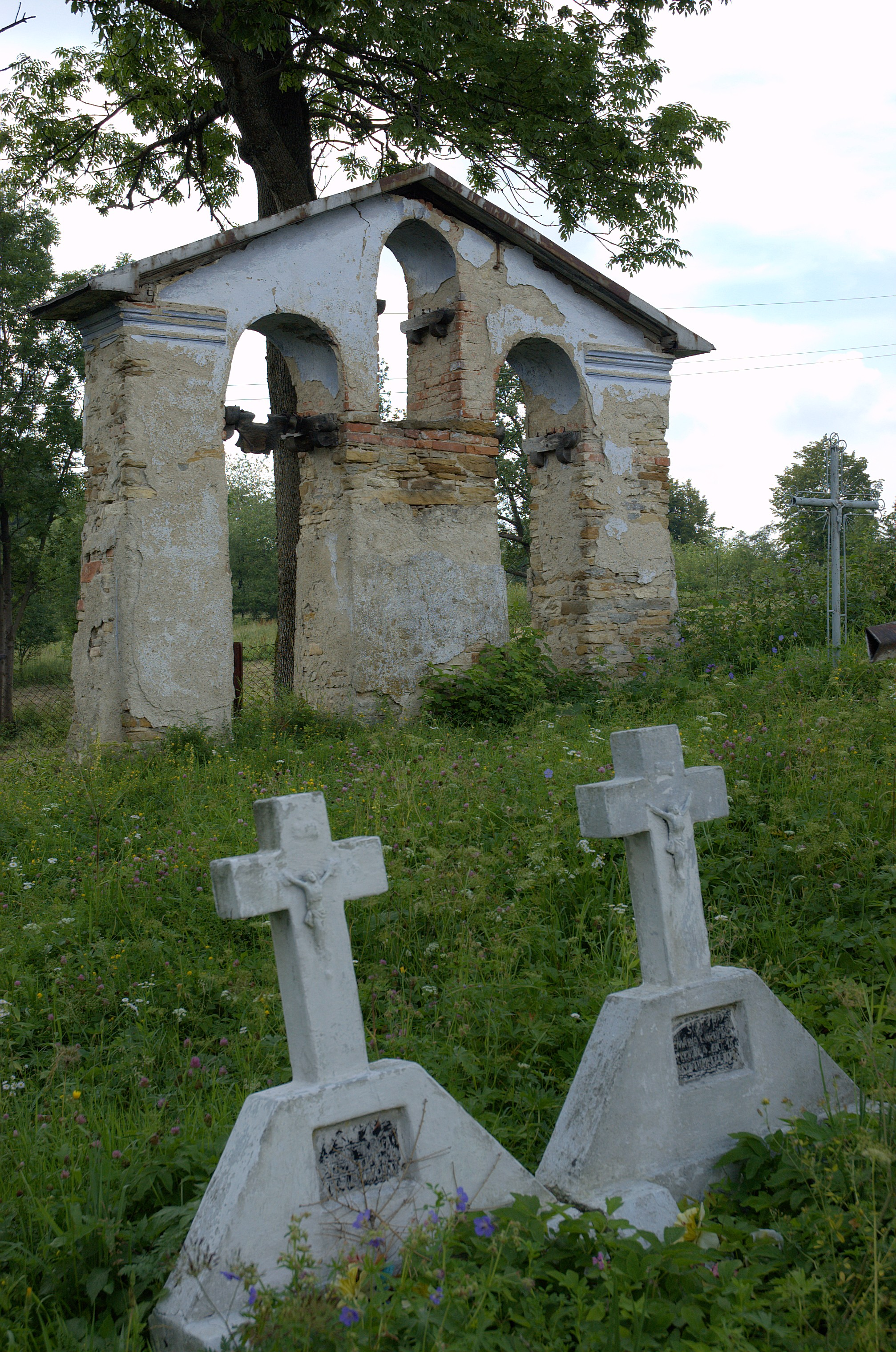 Greek Catholic church in Kopysno.